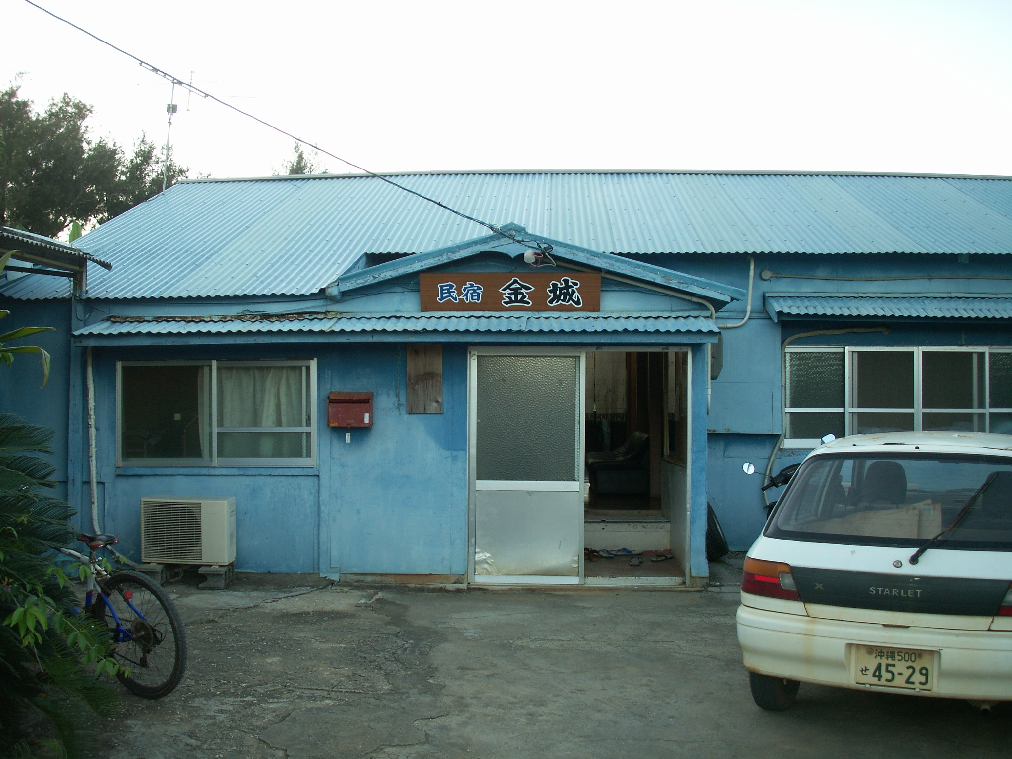 Minshuku Kinjou, a tourist home in Minamidaito Village, Okinawa Prefecture, Japan.